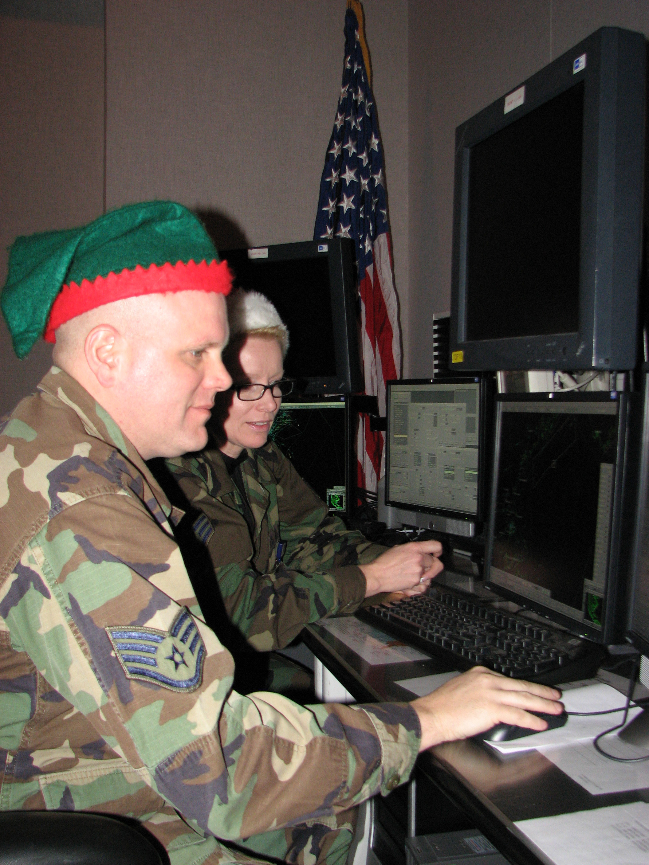 Air Guard's Northeast Air Defense Sector provide support for NORAD's annual Christmas Eve mission